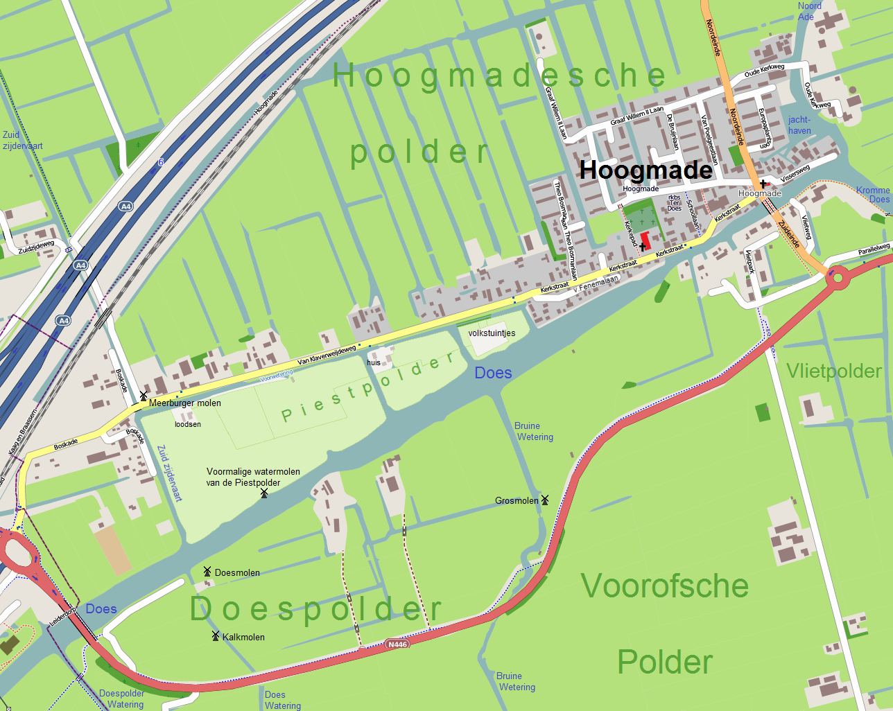 Location of the Piest polder, close to Hoogmade (municipality of Kaag en Braassem, Province of South Holland, Netherlands).